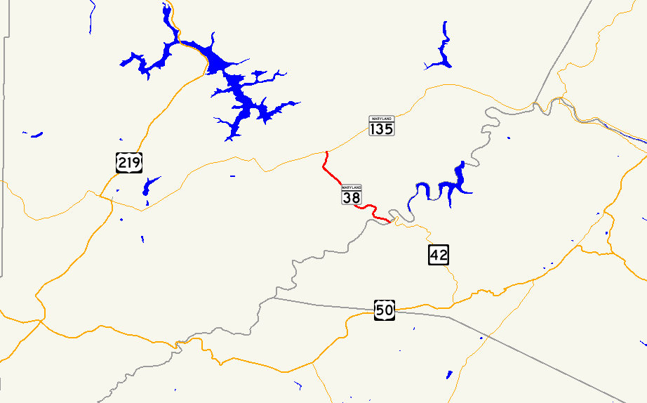 Map of MD Route 38